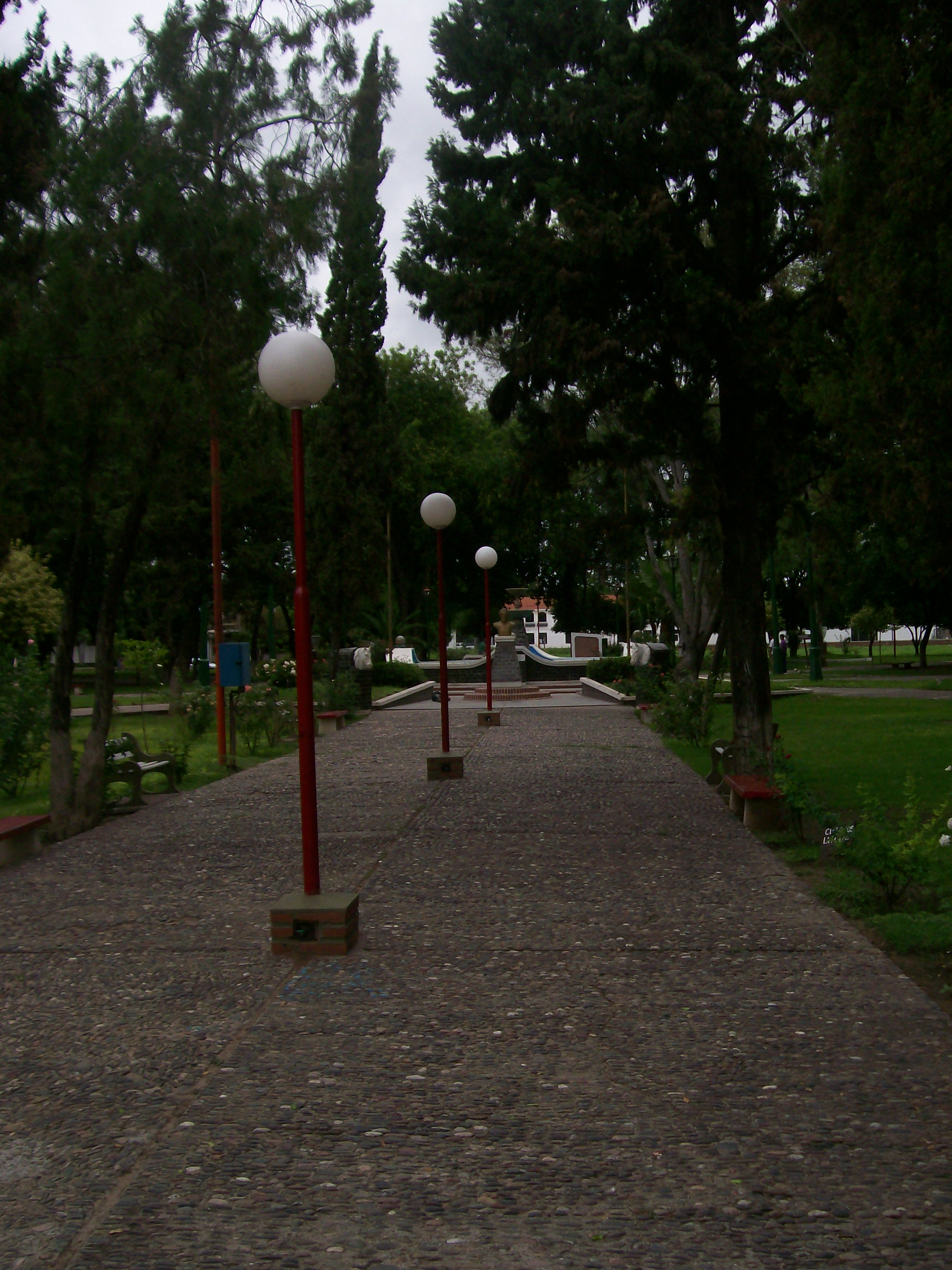 One of the paths in Joaquín V. González (Salta Province, Argentina) main square.